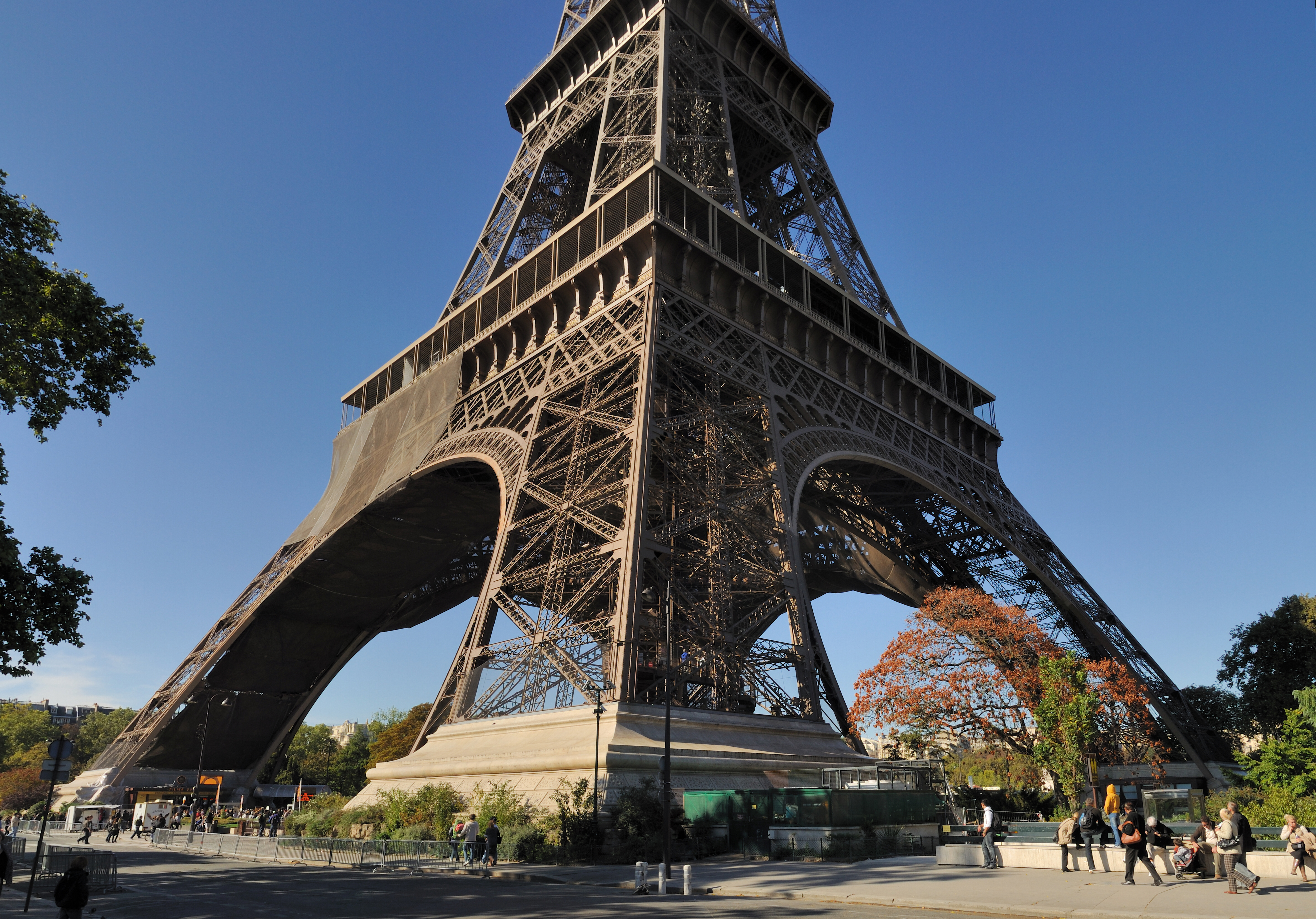 Eiffel Tower: basement and pillars